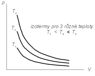 p-V diagram for Isothermal process with Czech description